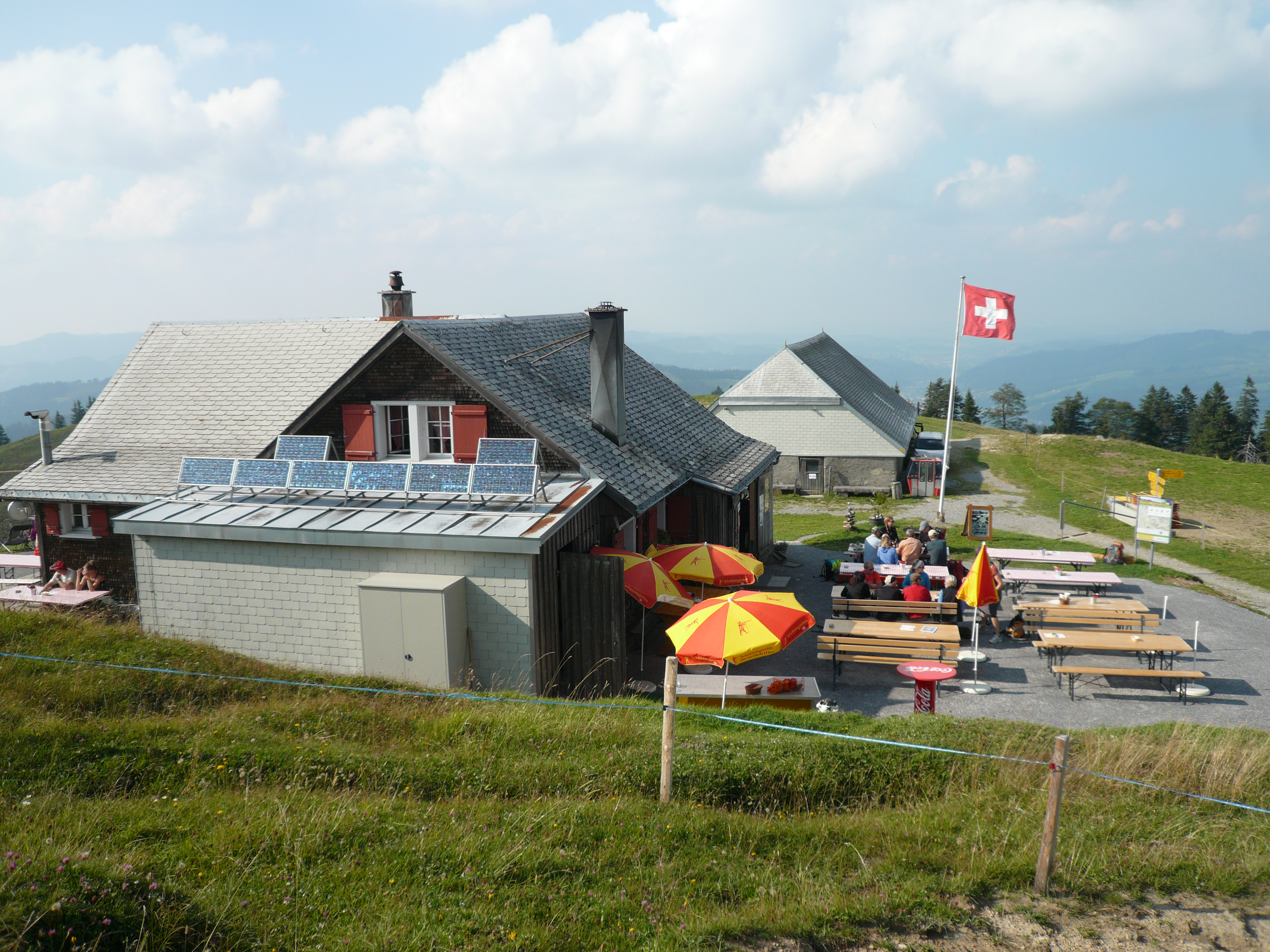 Restaurant on mountain Tanzboden, Switzerland